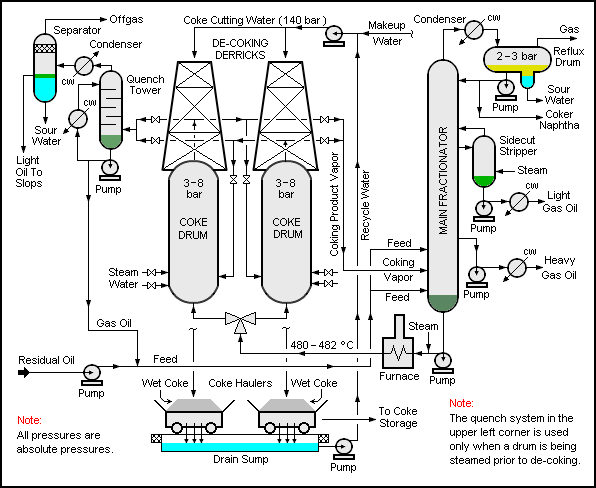 Schematic diagram of a Delayed Coker unit used in oil refineries. Image from the professional and academic work of the late Milton Beychok, AIChE.